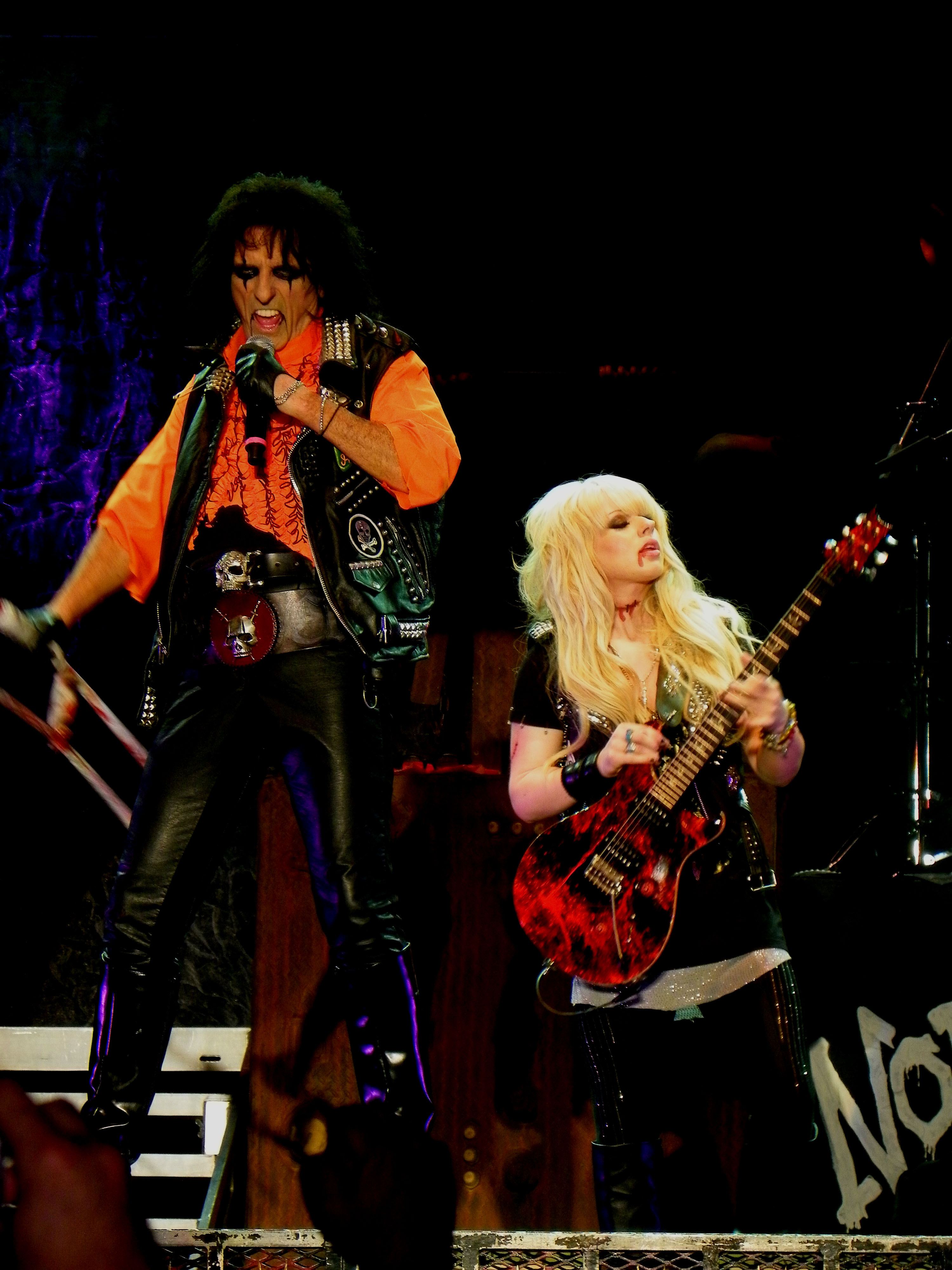 Alice Cooper in Alice Cooper's Halloween Night of Fear 2011, Orianthi